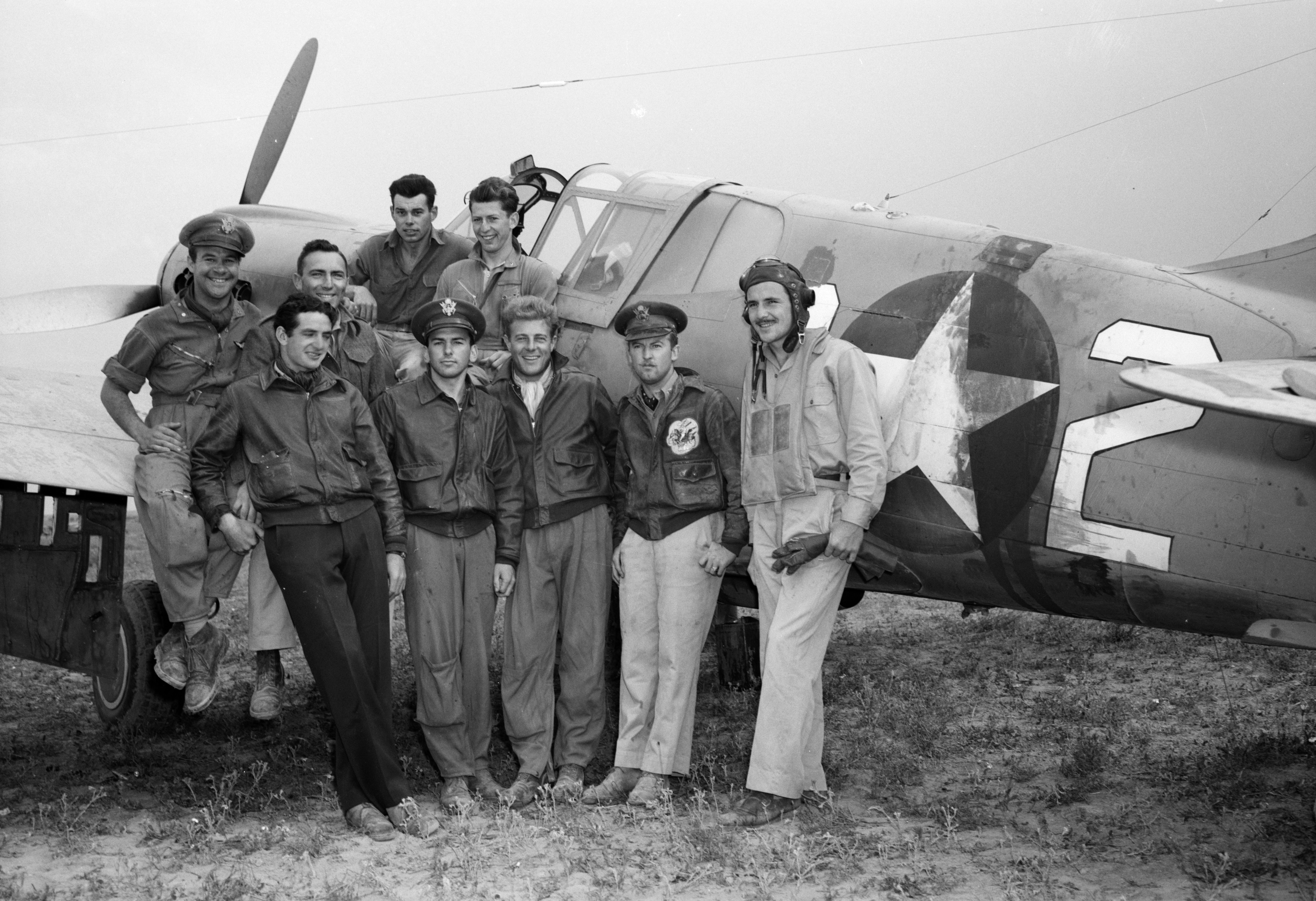 Pilots of the USAAF 64th Fighter Squadron, 57th Fighter Group, in front of one of their Curtiss P-40 Warhawk fighters in North Africa in April 1943. Original caption: "Members of the 64th Squadron of the 57th Fighter Group, which took part in the aerial victory over the Sicilian straits on April 18 1943, in which seventy-four enemy planes were destroyed."